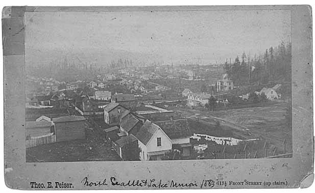 Handwritten on mount: North Seattle and Lake Union 1883 . Printed on mount: Theo. E. Peiser, 613 1/2 Front Street (up stairs) . 10022 Subjects (LCTGM): Neighborhoods--Washington (State)--Seattle; Residential streets--Washington (State)--Seattle; Dwellings--Washington (State)--Seattle; Cityscape photographs; Cityscapes